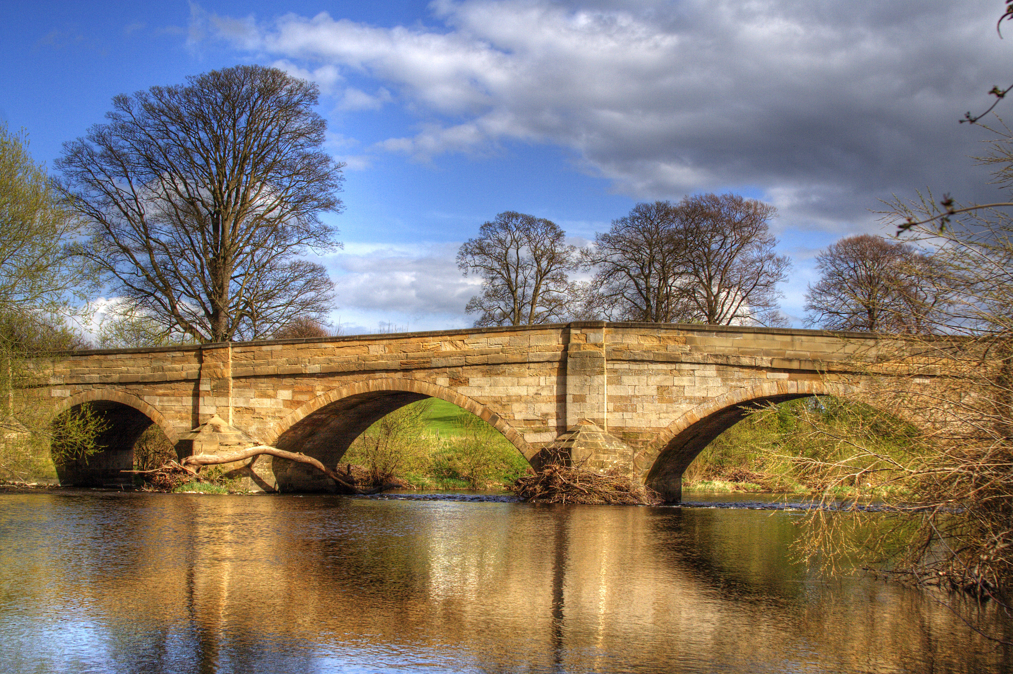 Bridge over River Ure, Ripon, Yorkshire, Great Britain.